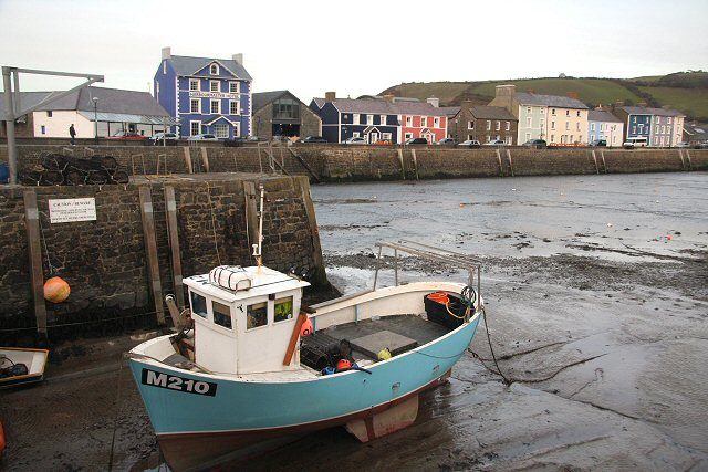 Aberaeron Harbour At high tide the water in the harbour can be quite rough, especially if the wind direction is onshore. A number of fishing vessels are moored in a sheltered spot, opposite the harbourmaster's office.